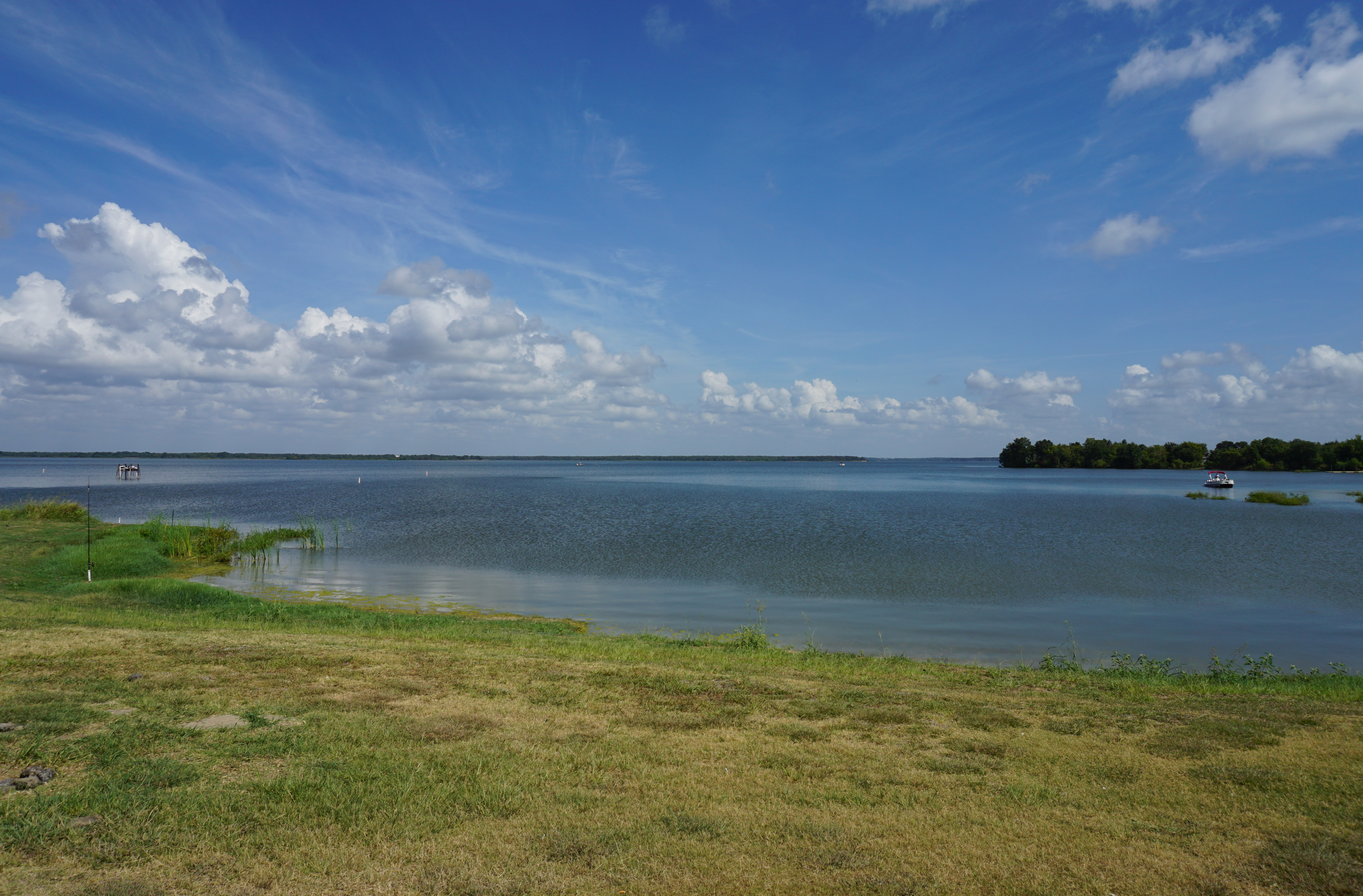 A view of Lake Tawakoni from West Tawakoni City Park in West Tawakoni, Texas (United States).